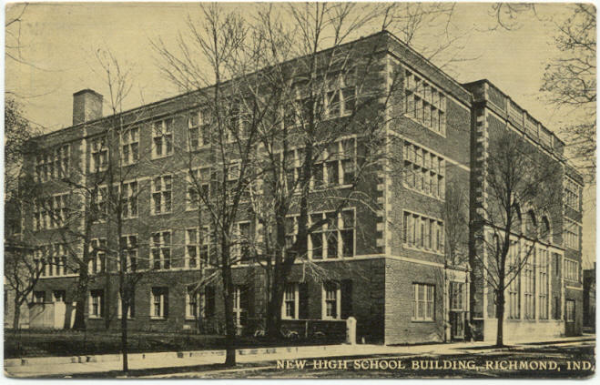 Richmond High School in Richmond, circa 1911, from a postcard. Store Web page states: "Richmond Indiana IN c1911 Postcard High School"; postcard caption states: "New high school building, Richmond, Ind."